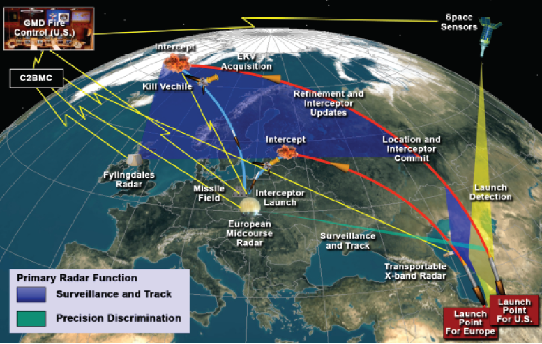 Ballistic Missile Defense System (BMDS) in Europe (Czech Republic and Poland)